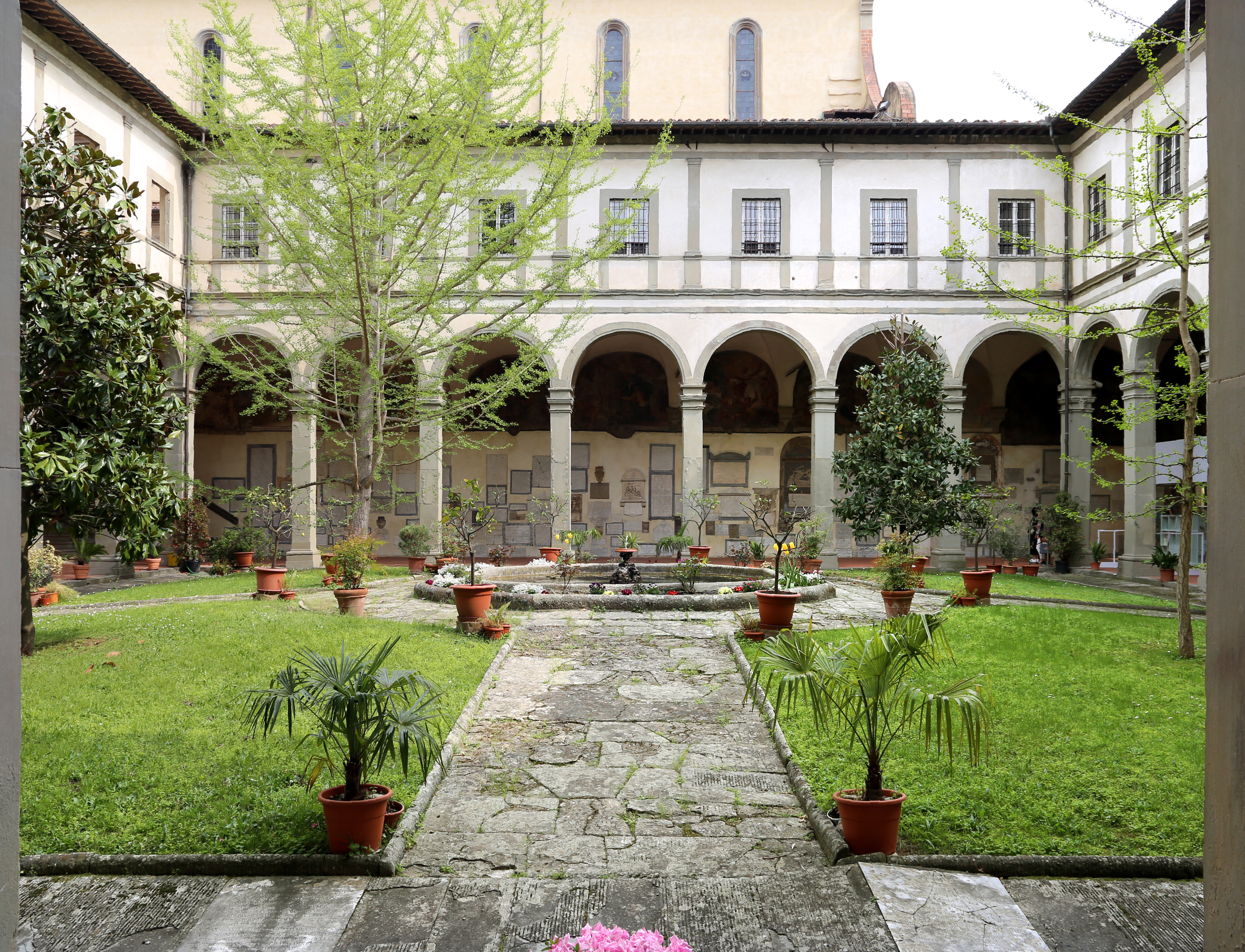 Santo Spirito (Florence) - Chiostro dei Morti